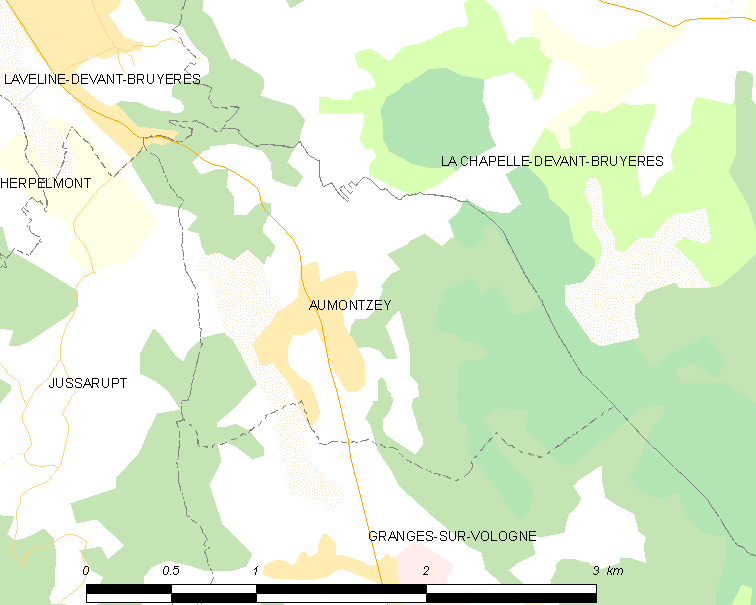 Map of French municipality Aumontzey